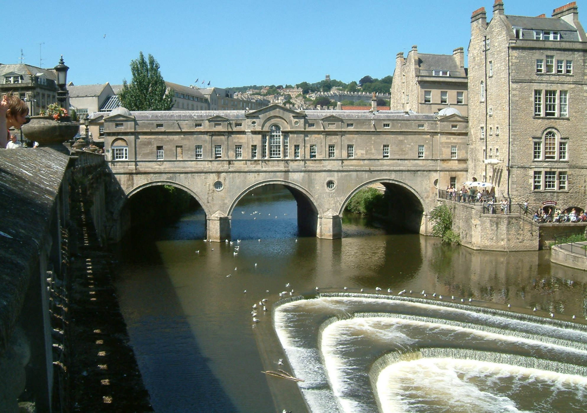 Pulteney Bridge, Bath, England, United-Kingdom